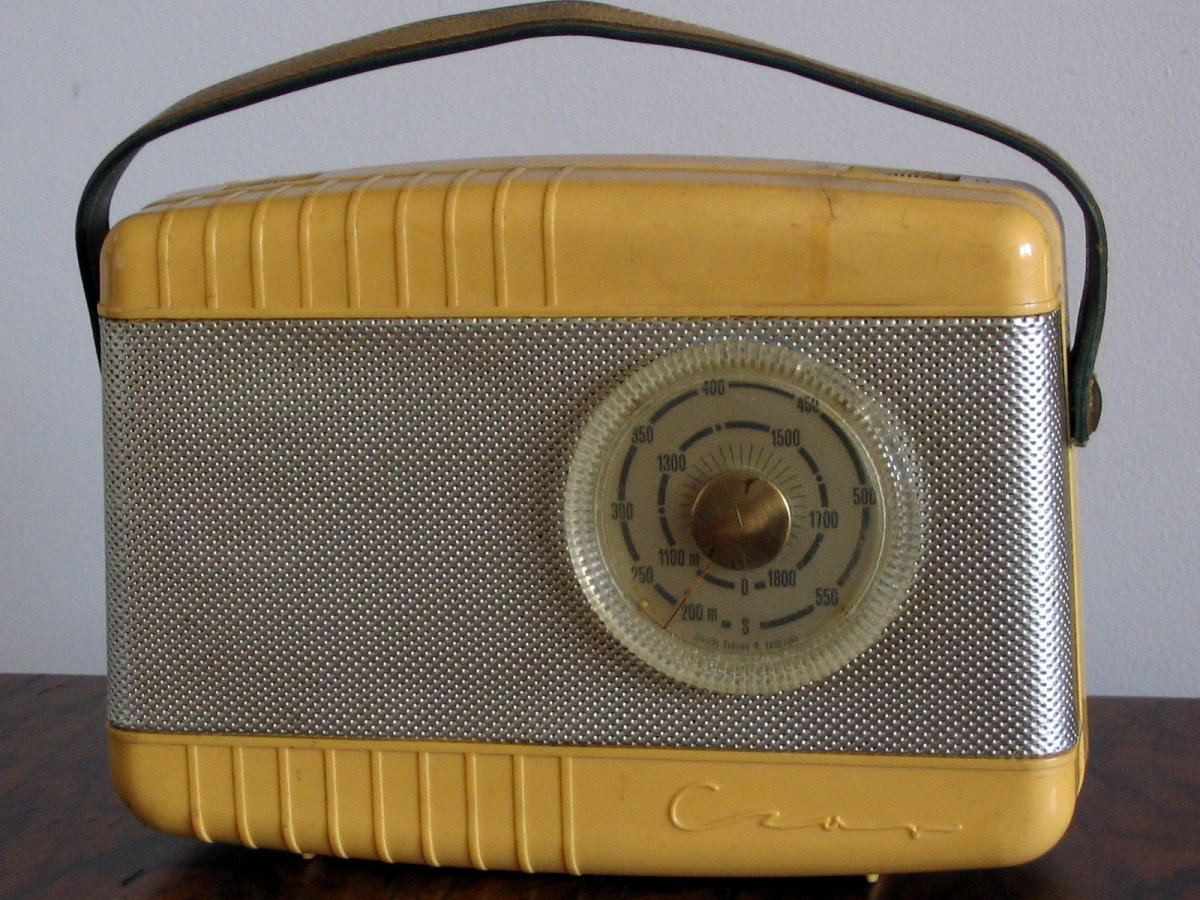 Radio "Czar", manufacturer: "ZRK" (Poland), 1961